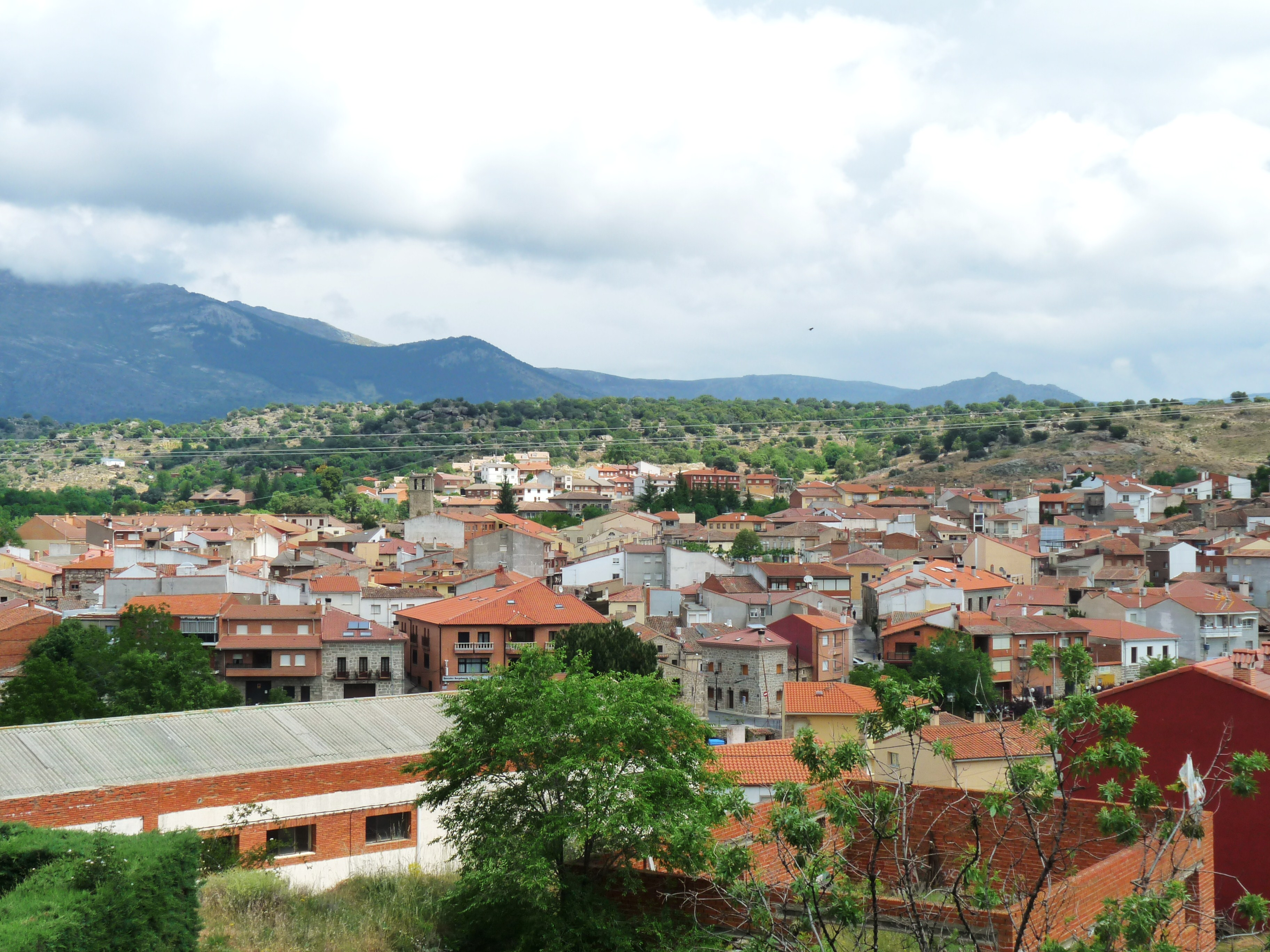 View of Burgohondo, Ávila, Spain.